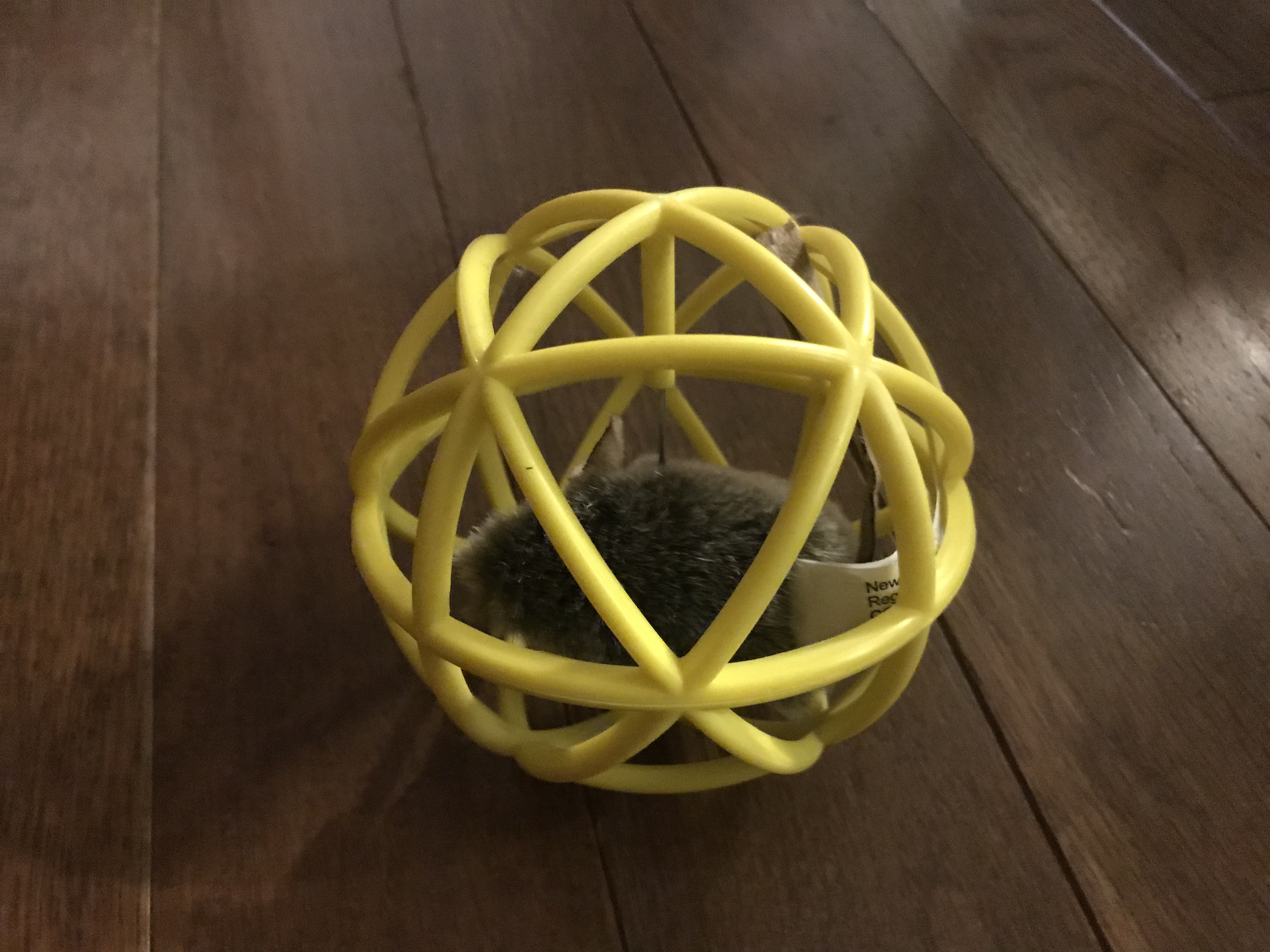 A cat toy that uses a polyhedron (the tetrakis cuboctahedron) in its construction. It also contains a toy mouse; please disregard said mouse.